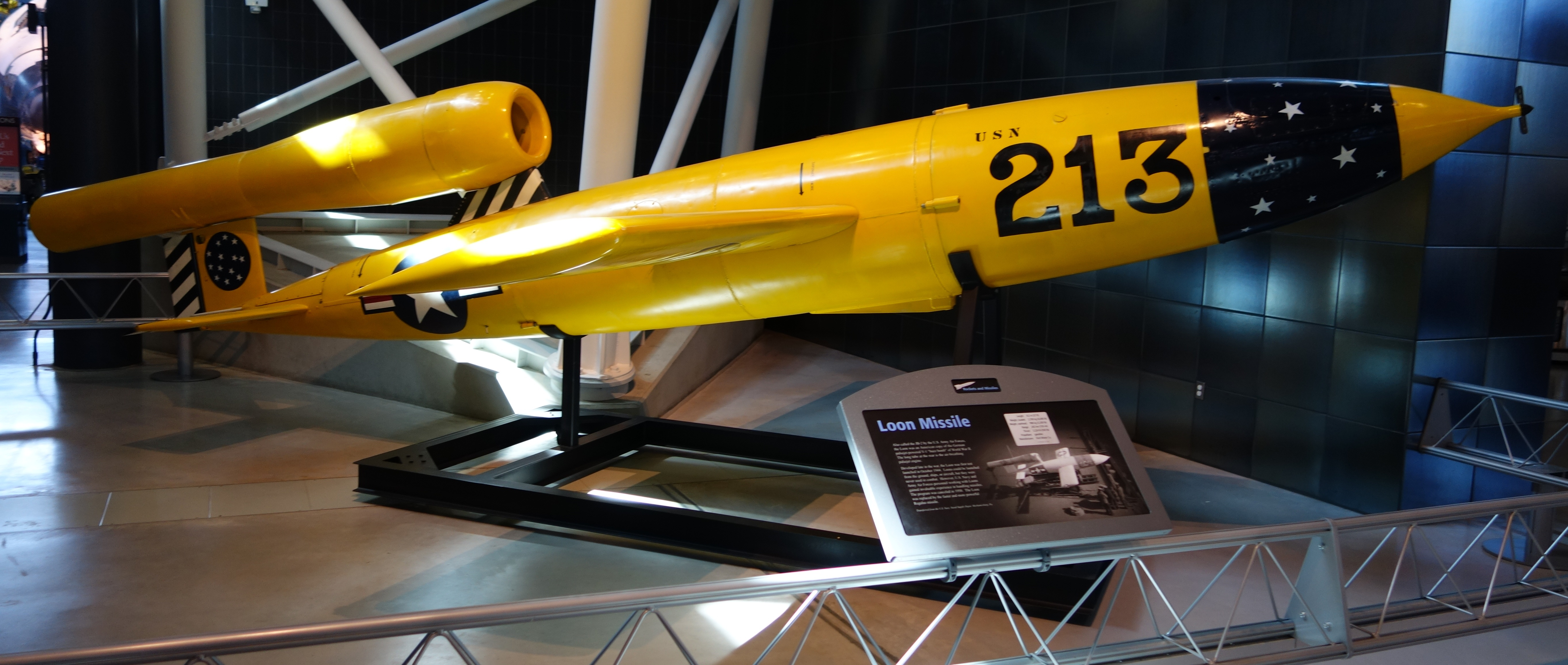 Republic-Ford JB-2 Loon missile on display at the National Air and Space Museum, Steven F. Udvar-Hazy Center